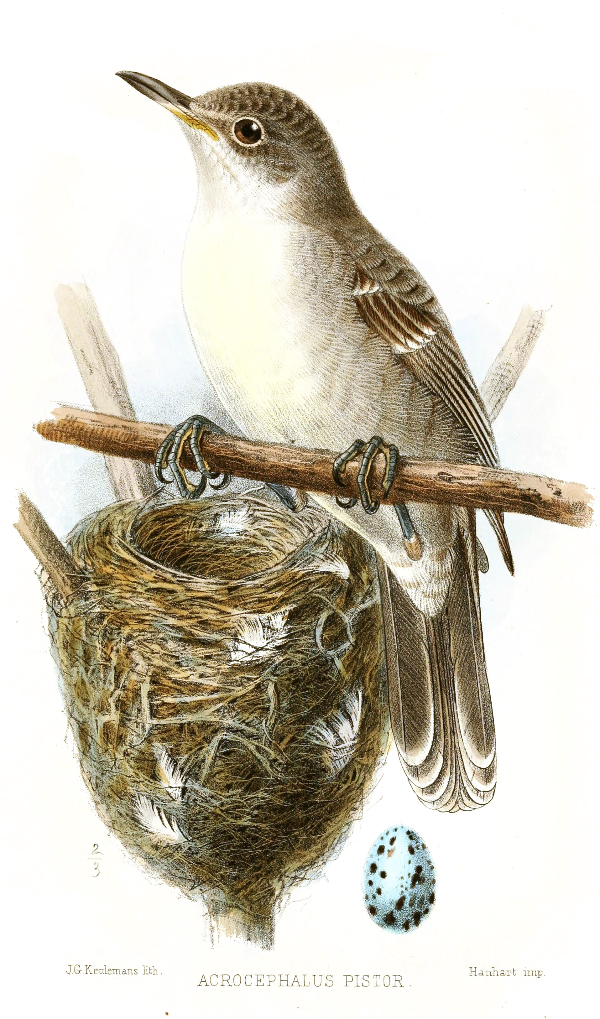 Christmas Island Warbler (Acrocephalus aequinoctialis, cat.), Subspecies: Acrocephalus aequinoctialis pistor